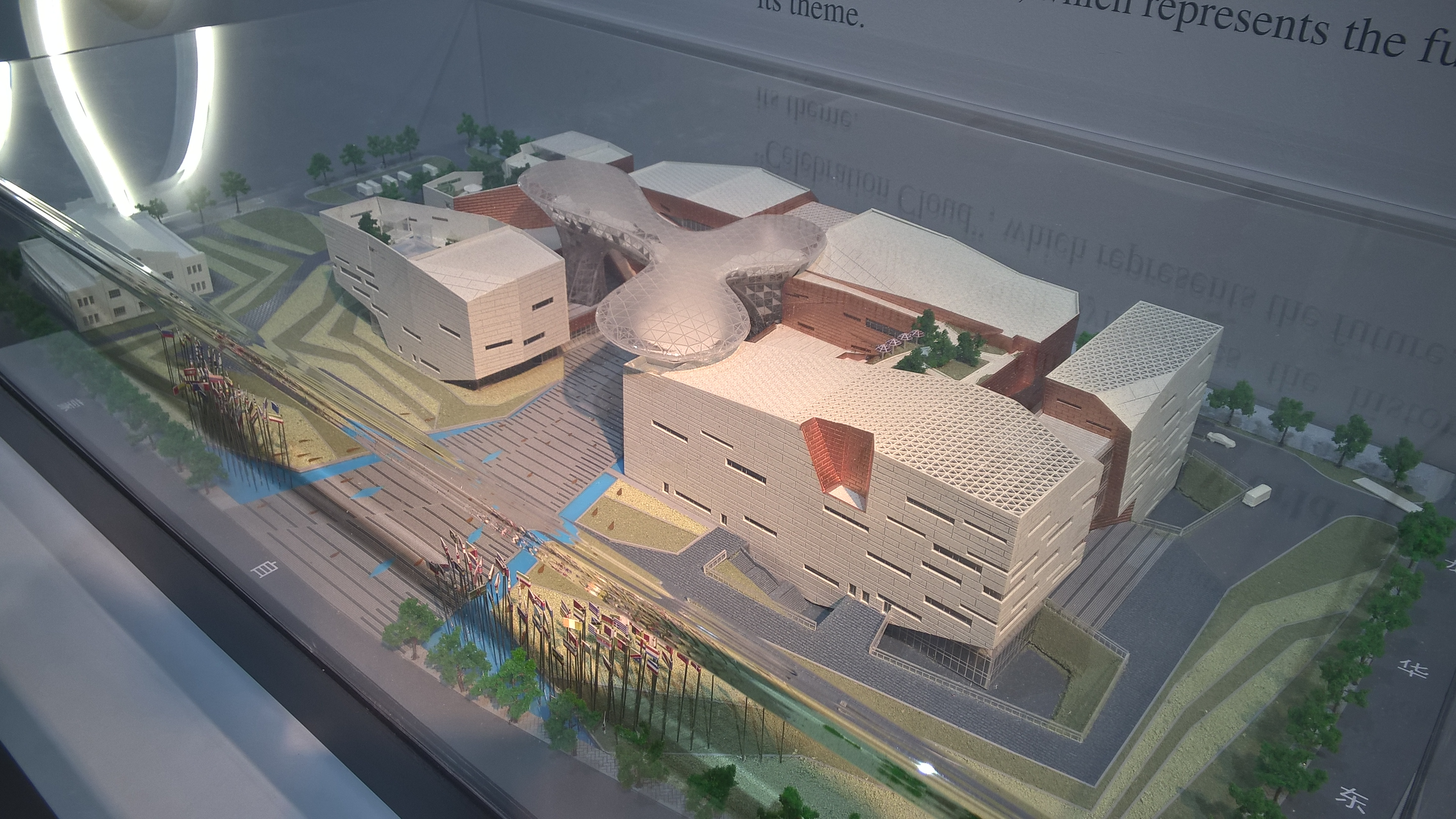 Model of the World Expo Museum of Shanghai, as shown at WEM pavilion, inside the Bio-Mediterraneum cluster at Expo 2015 Milano